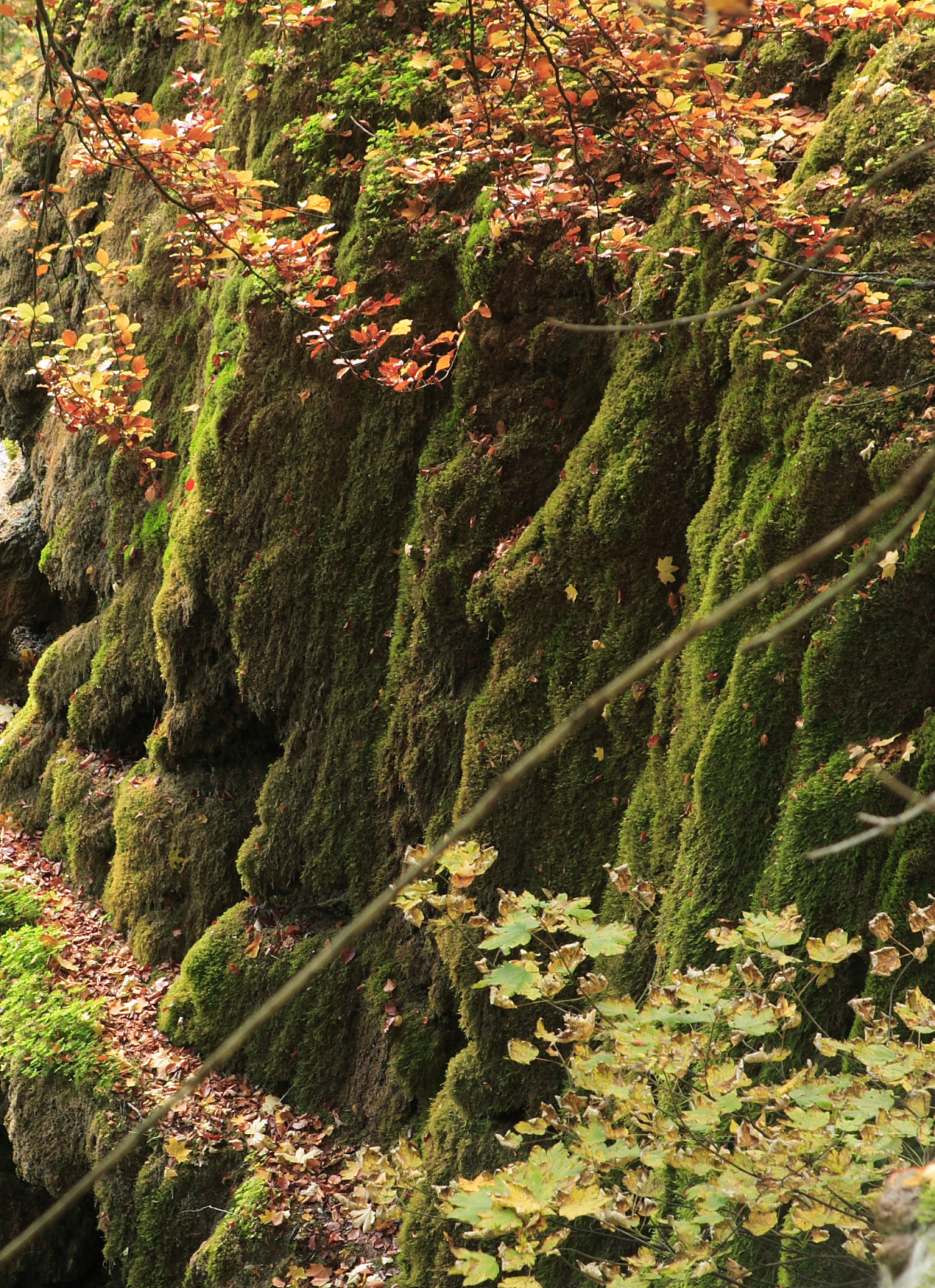 Shoulder of the „calcareous tuff nose" of the Gütersteiner Wasserfall, growing at a steep slope of the Albtrauf; side valley of Bad Urach, southern Germany. The karstwater percolates from a groove at the top over the complete curtain of moss. An increase of watersurface, proliferation of moss and chemical precipitation of calcium carbonate interact and generate a dynamical growth of the nose; its shoulder measures meanwhile ca. 8m.